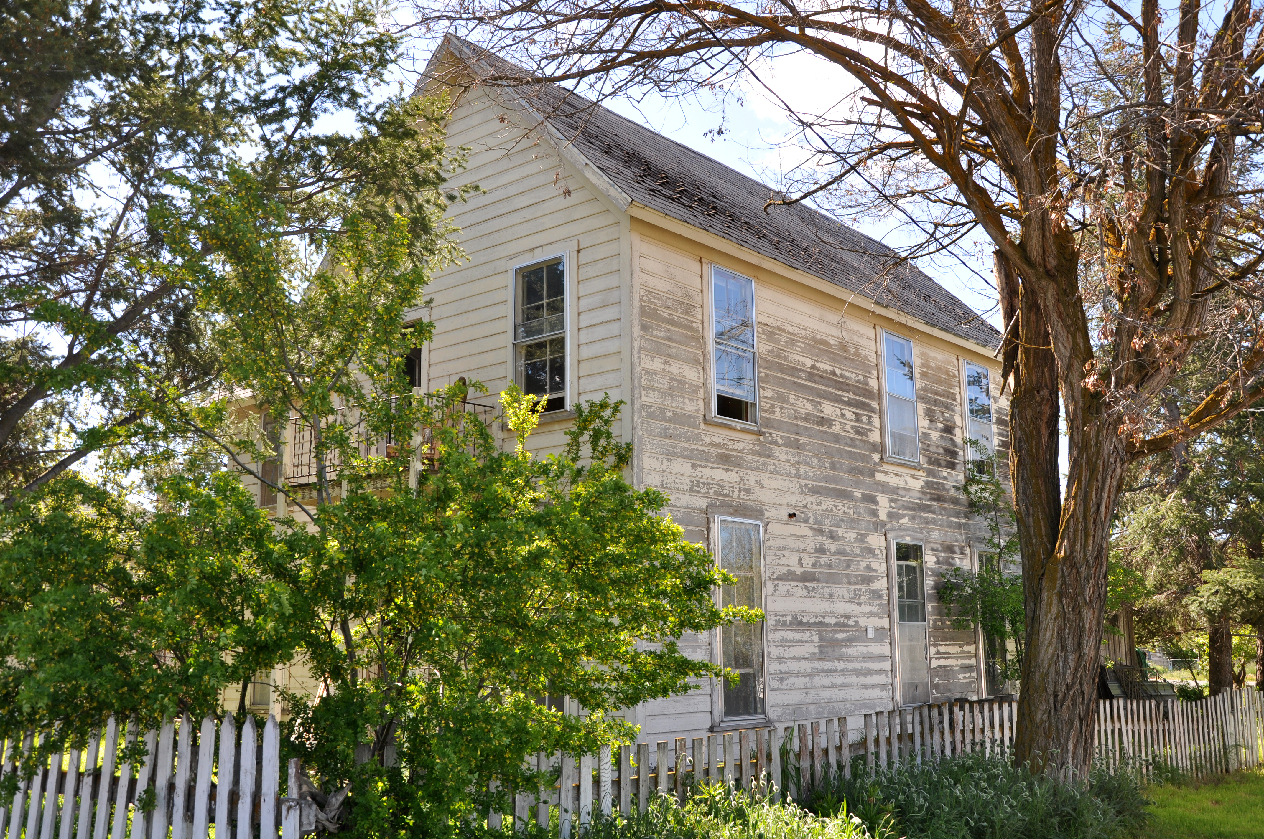 Thomas Benton Hoover House in Fossil, Oregon. The structure is listed on the National Register of Historic Places.